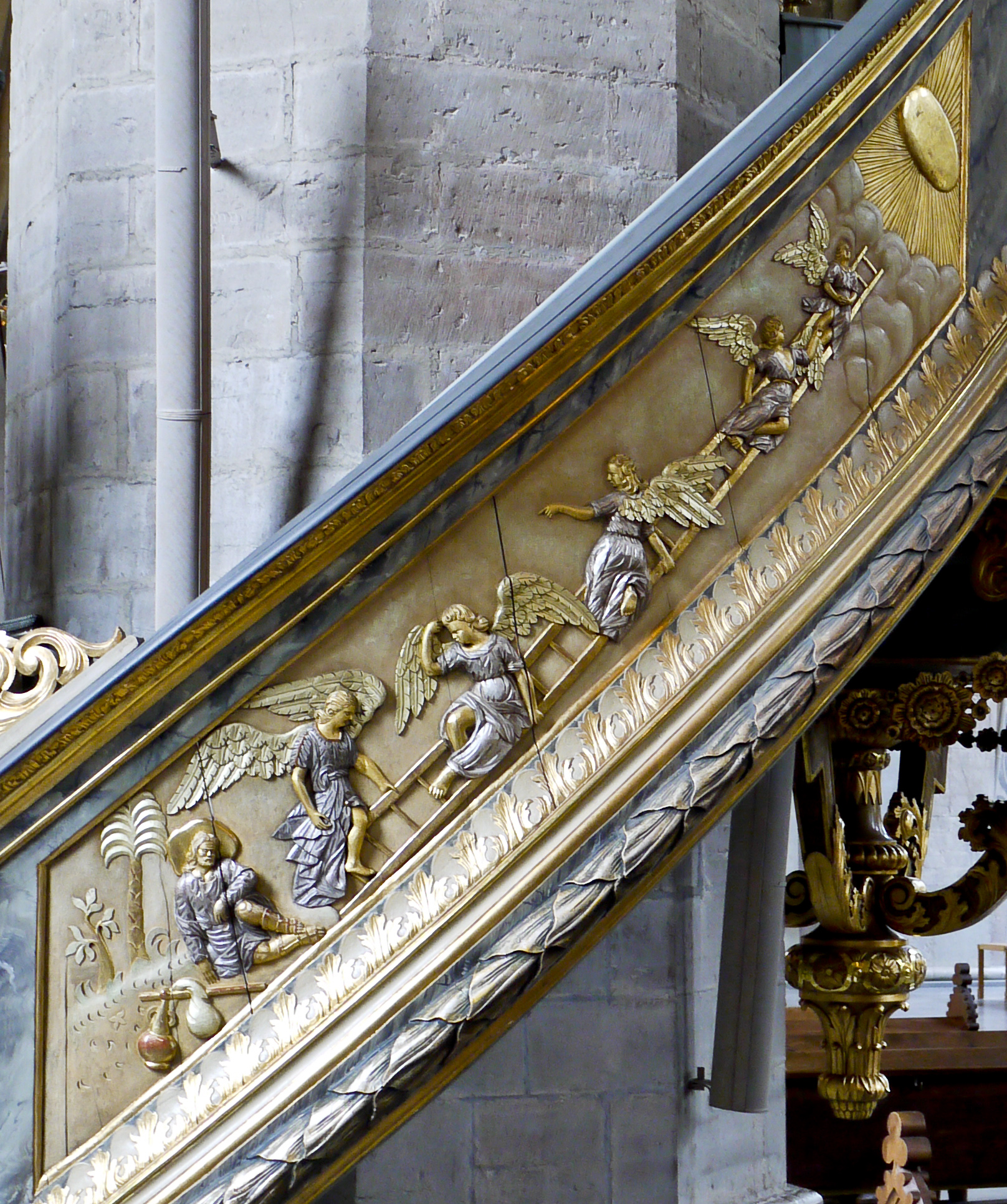 Linköping Cathedral, Linköping, Sweden. Sculptures on the side of the pulpit.